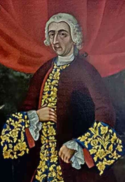 Portrait of José de la Borda (cropped)